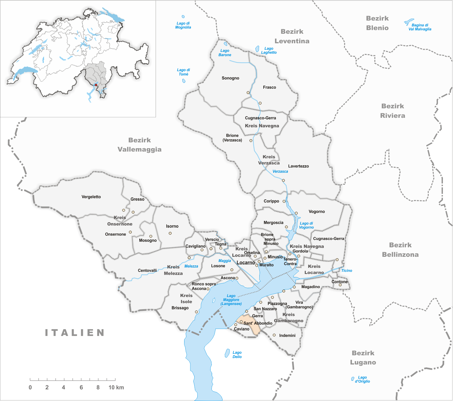 Municipality Sant Abbondio Artist: Tschubby